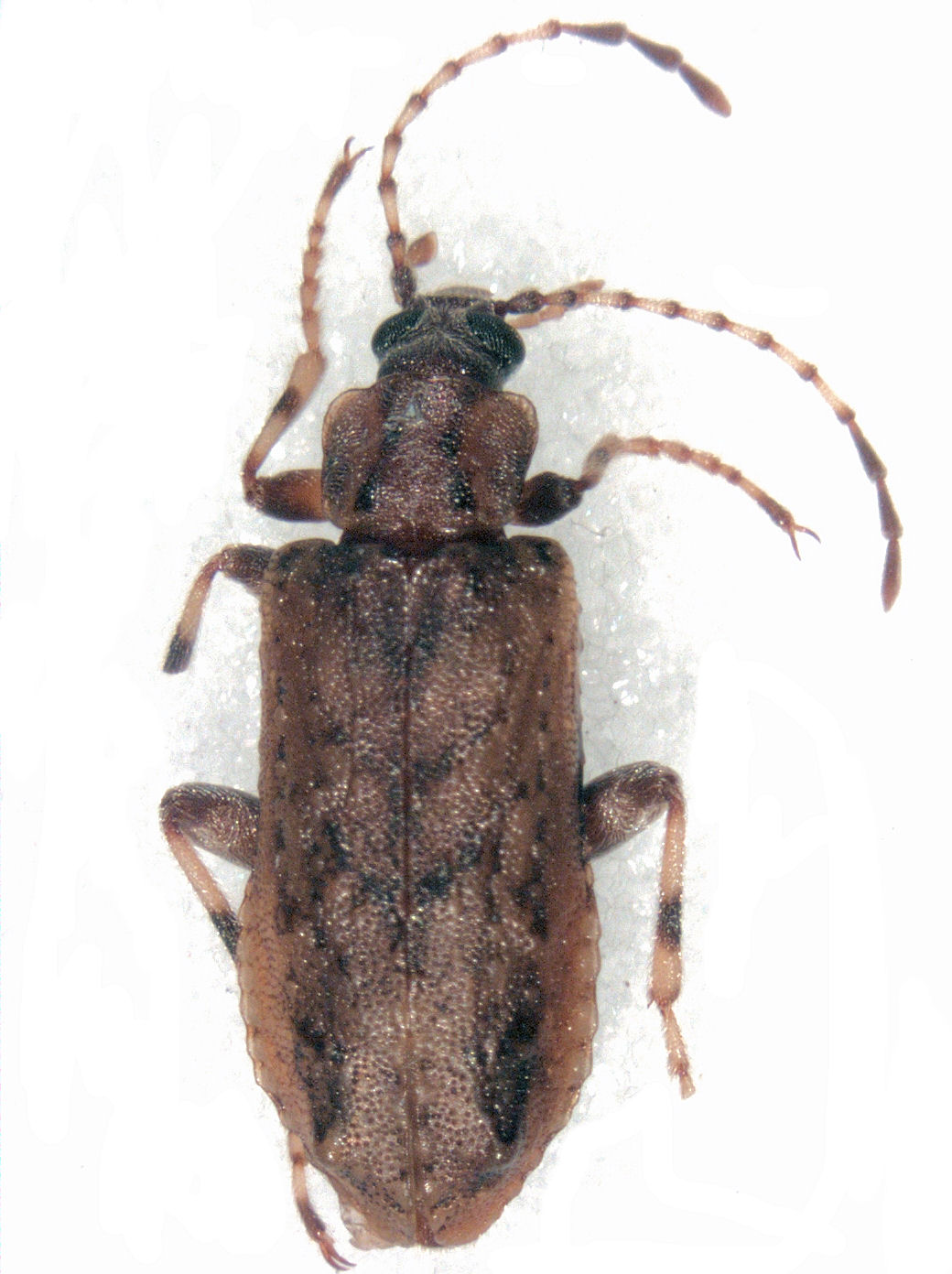 adult Onysius anomalus